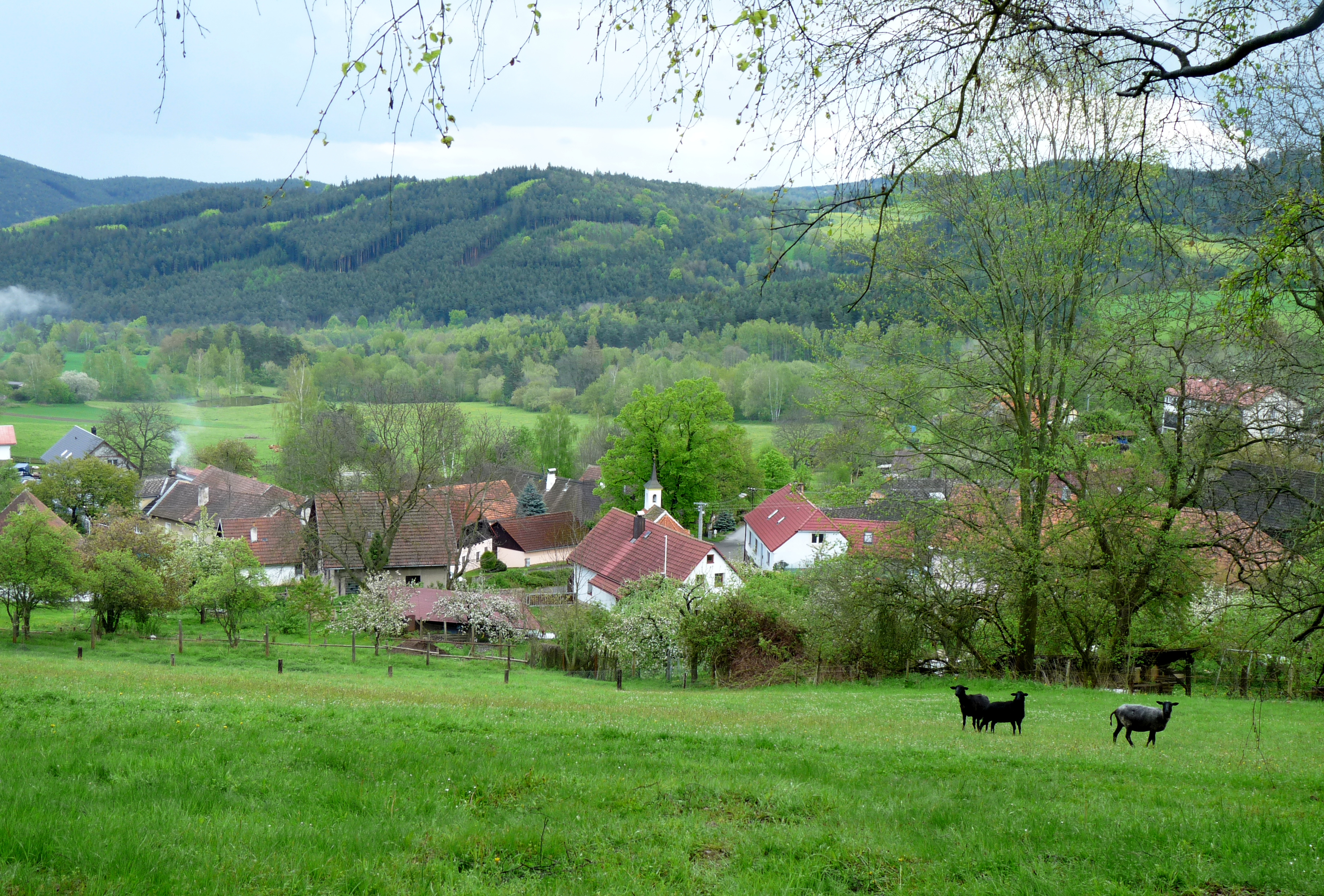 View of the village of Oseky, Prachatice District, South Bohemian Region, Czech Republic.